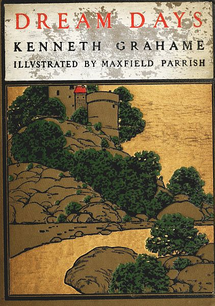 Cover of Kenneth Grahame's Dream Days, illustrated by Maxfield Parrish